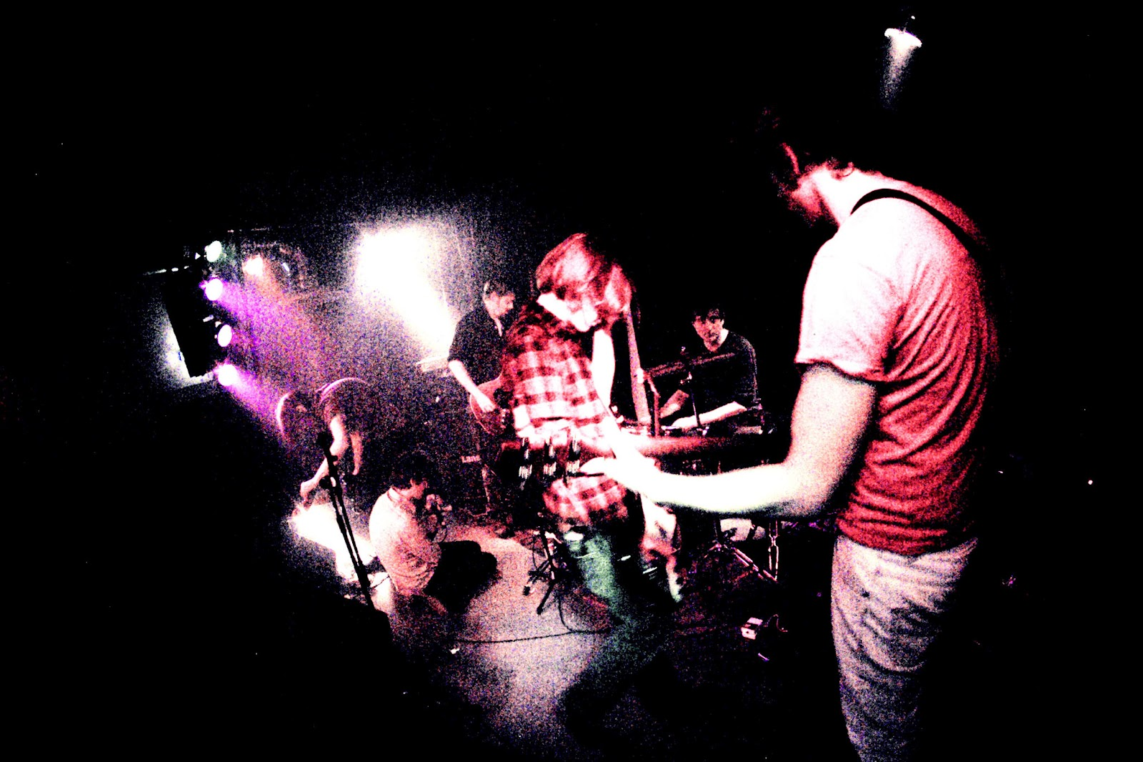 The Telescopes live at Nambucca December 2010. (L-R) Nick Keech, Stephen Lawrie, James Beal, Byron Jackson, Dan Davis, James Messenger.